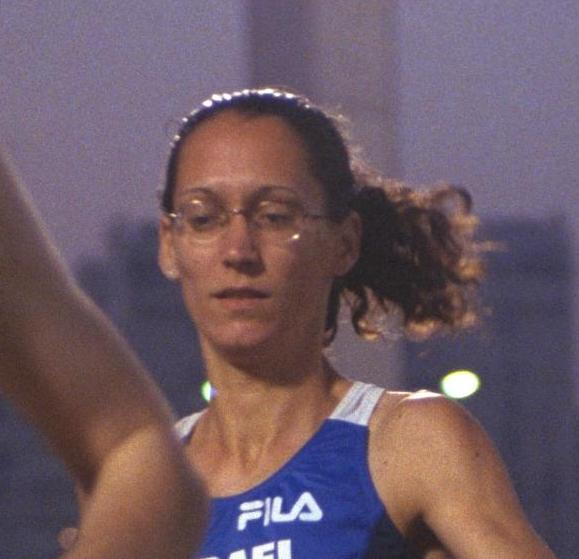 The European nations cup in athletics, held at the Hadar Yosef stadium in Tel Aviv. In the photo, Nili Abramsky (blue) participating in the women's 5000m race.